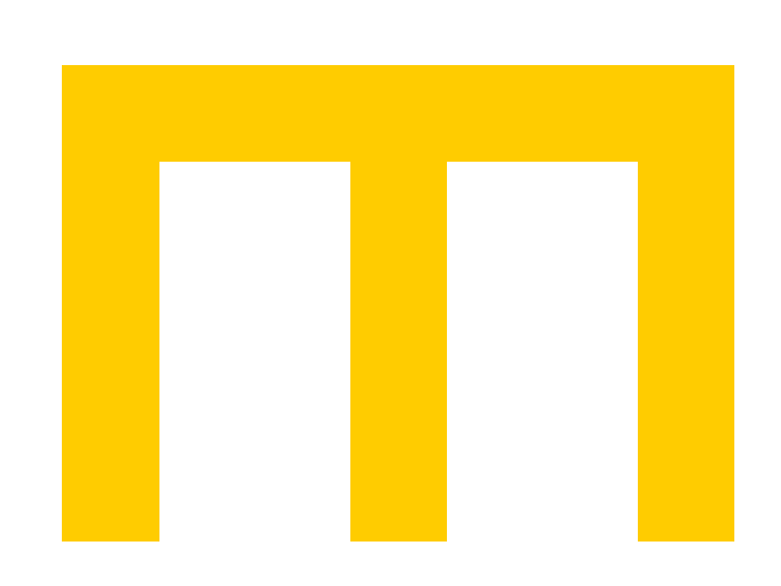 Mark of Ww2 GermanDivision Panzer 3 - 1938-1939